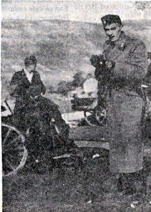 The Ustashe Lieutenant Colonel Jure Francetić commands the Black Legion's artillery during Operation Trio